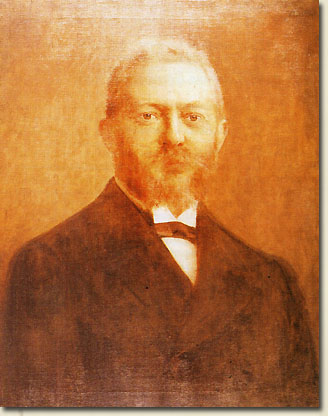 Dávid Kaufmann (painting by Izidor Thein, LHAS Kt 16).